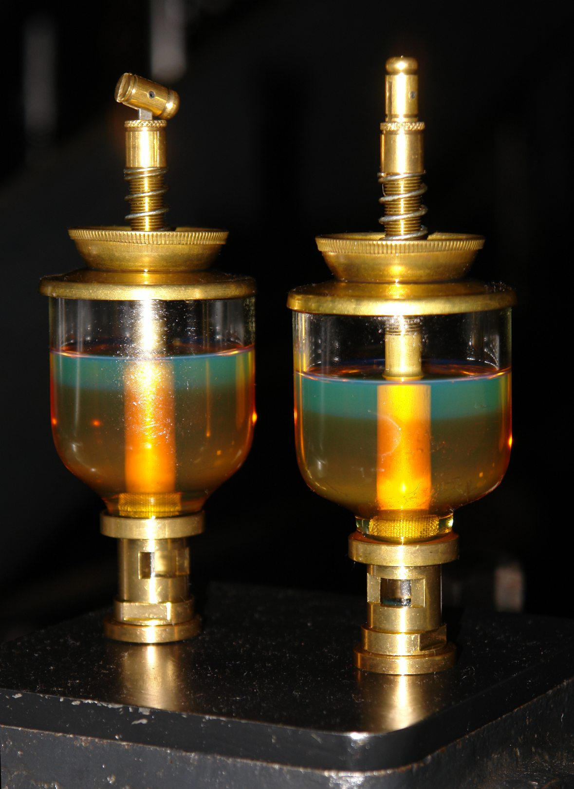 Oilers for a steam engine